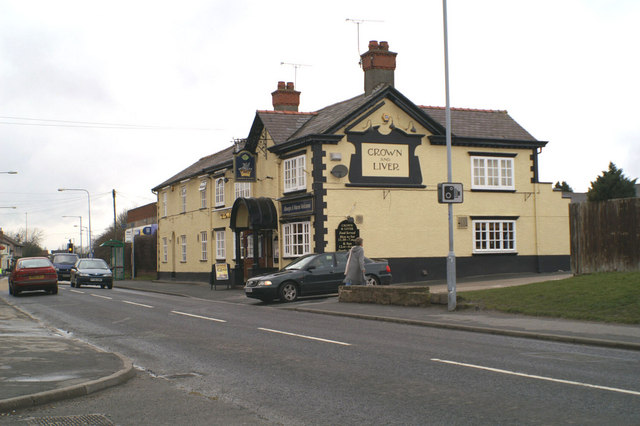 Homage to the Capital of Wales. Liverpool's Liver Bird surmounts the crown at this pub beside the B5125 at Ewloe